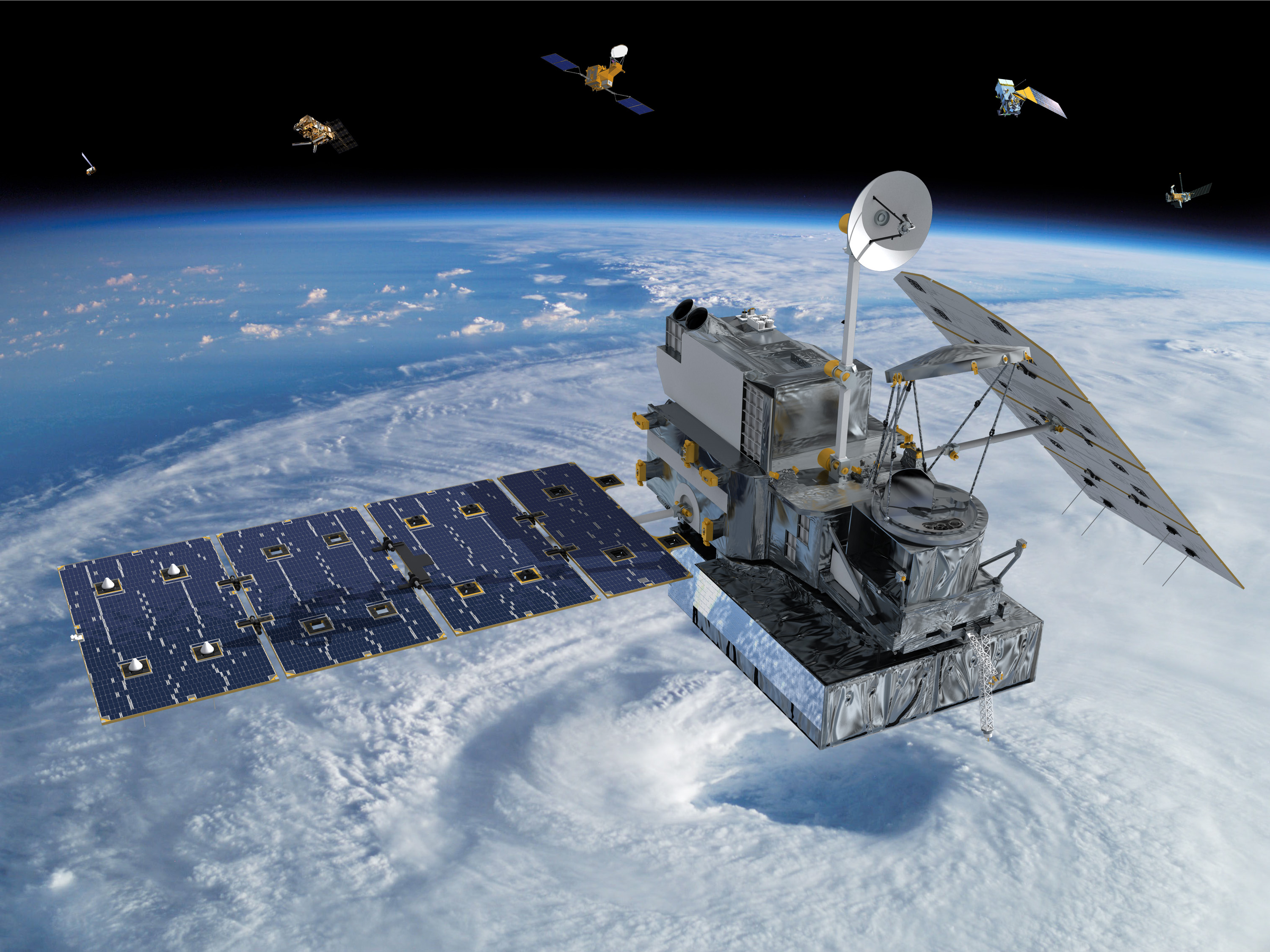 This image depicts the GPM Core Observatory satellite orbiting Earth, with several other satellites from the GPM Constellation in the background. Global Precipitation Measurement (GPM) is an international satellite mission that will set a new standard for precipitation measurements from space, providing the next-generation observations of rain and snow worldwide every three hours.